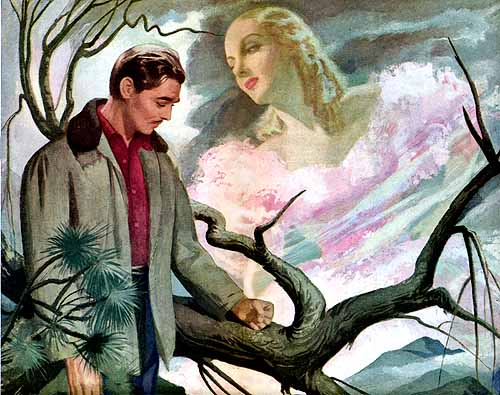 Illustration by William Rose for the story "Clark Remembers Lombard" (author unknown) in The American Weekly. Depicts actors Clark Gable and Carole Lombard, who were married from 1939 until Lombard's death in 1942.